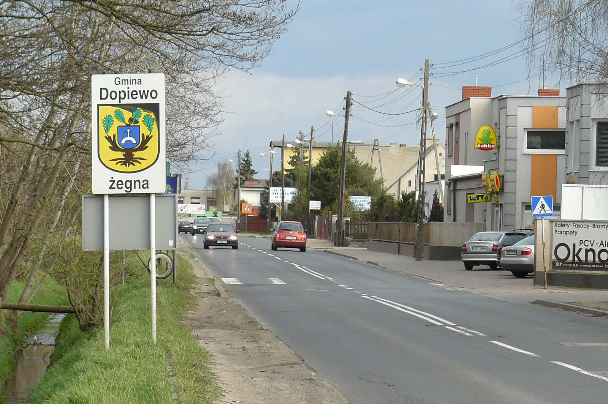 Skorzewo and Poznan, Malwowa Street.